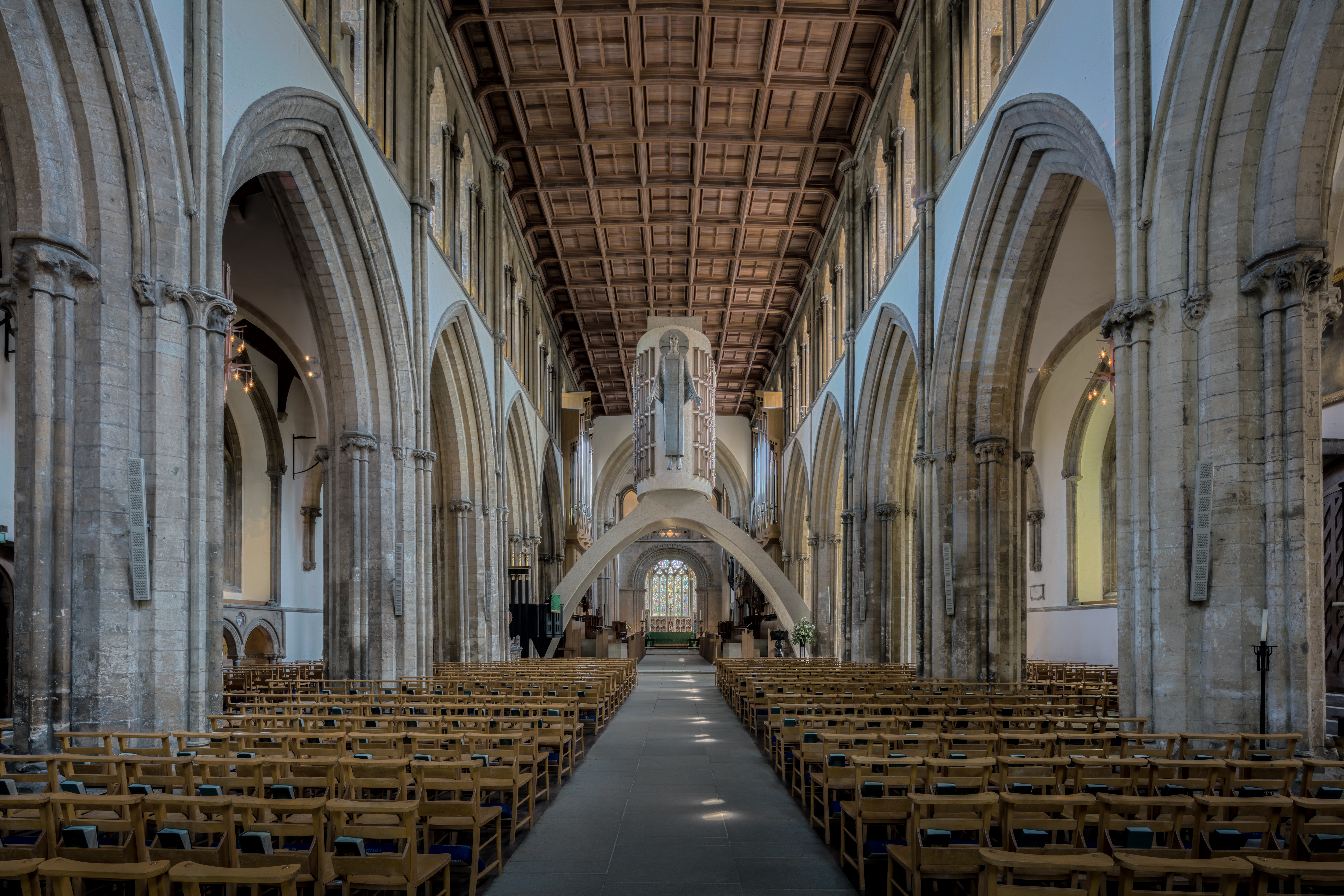 Here is an hdr photograph taken from the nave inside Llandaff Cathedral. Located in Cardiff, Wales, UK.